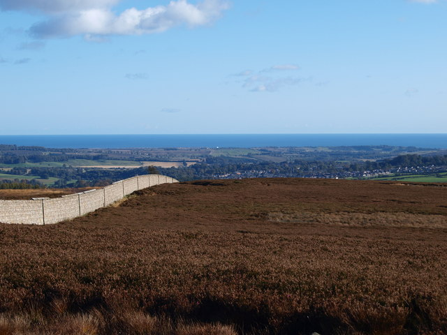 The Wall around Hulne Park looking to Alnwick and the coast This is a superb wall built between 1806 and 1811 and is a tibute to the estate workers, local masons and David Stephenson the architect who built it. The section shown is but a small length of this enormous undertaking.